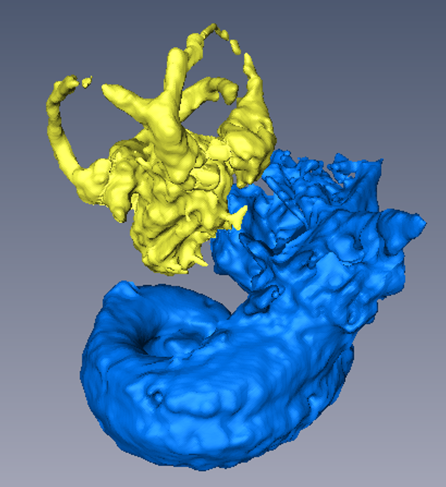 The organ of balance, yellow, and that of hearing, blue, in this 43 million year old Andrewsiphius are 3D reconstructions of high-resolution CT scans, and teach us that balance was the first sense organs to reach modern proportions in whale evolution . These structures are less than 2 cm in size, and are located in the skull